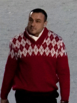 Sébastien Gattuso lors de la cérémonie d'ouverture des Jeux olympiques d'hiver de 2010.